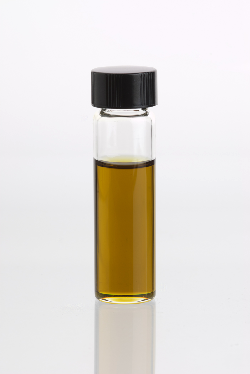 Glass vial containing Lime Essential Oil